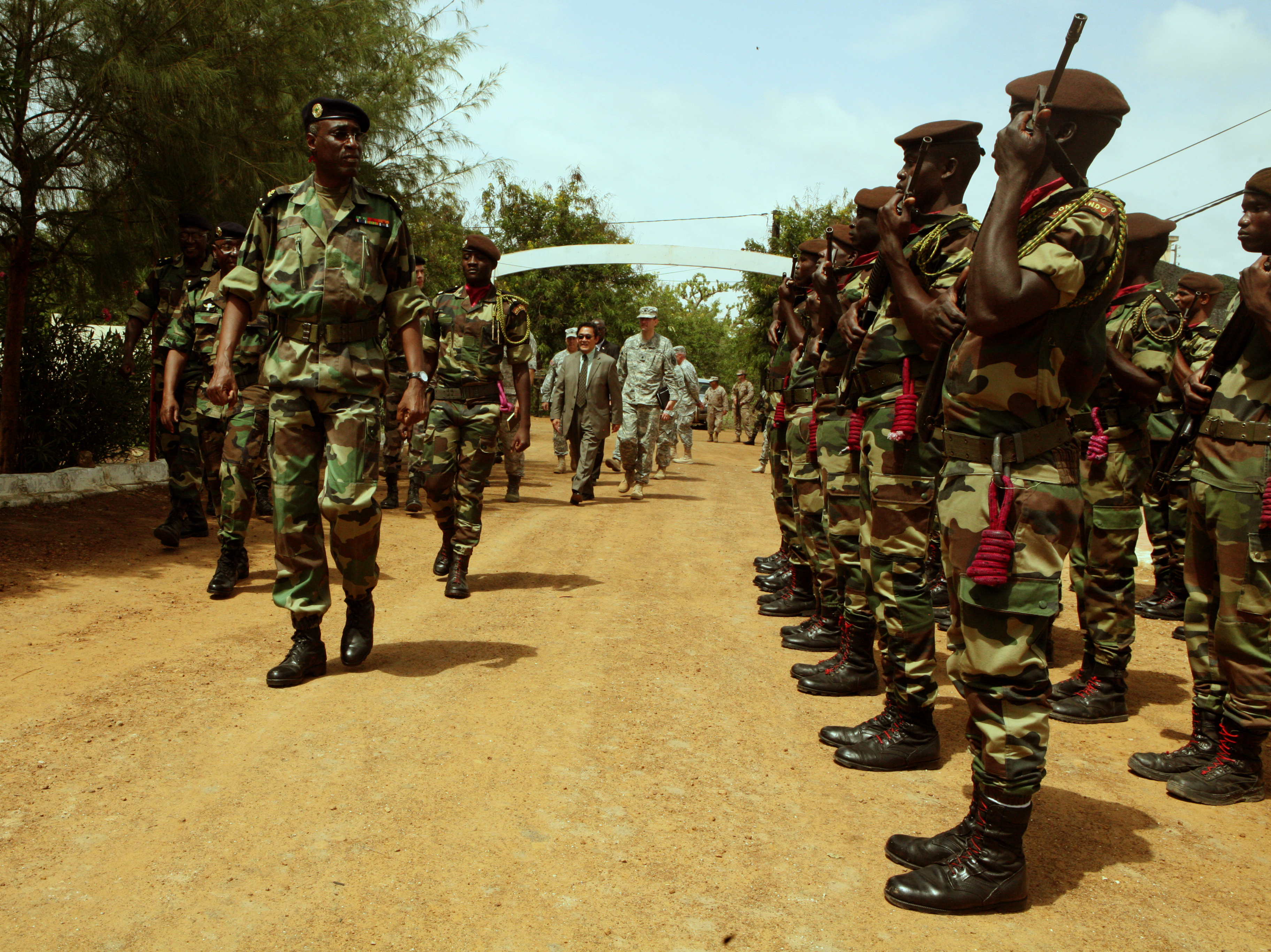 Senegalese navy Adm. Ousmane Ibrahima Sall, left, the deputy chief of staff of the Senegalese Armed Forces, inspects a formation of troops with military leaders from other nations during exercise Western Accord 2012 in Thies, Senegal, July 14, 2012. Western Accord is a U.S. Africa Command-sponsored, Marine Forces Africa-led multilateral field exercise and humanitarian mission in Senegal designed to increase interoperability between the United States and several West African partner nations.